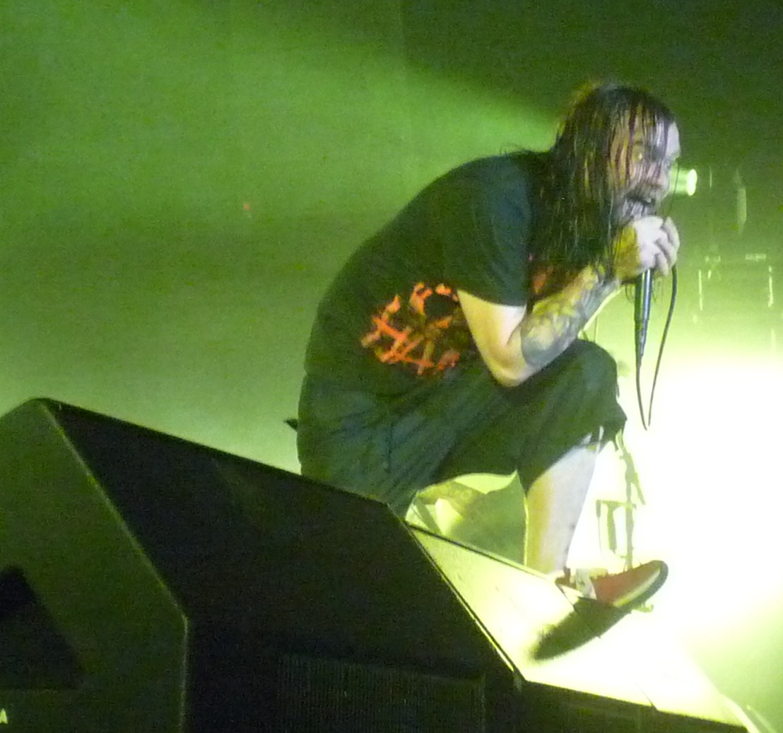 Bert McCracken of The Used at the band's show in Lethbridge, Alberta 28/11/09